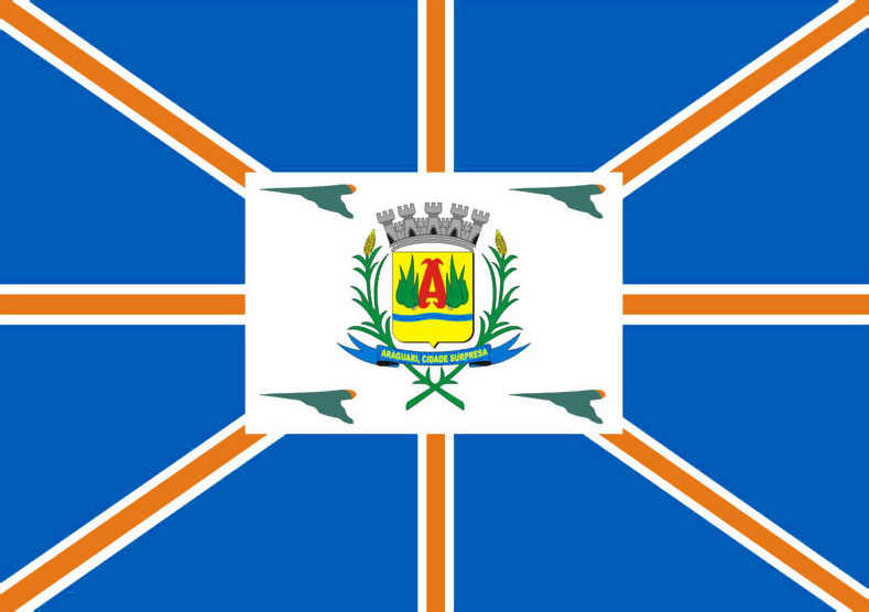 Flag of Minas Gerais' Araguari city, Brazil.